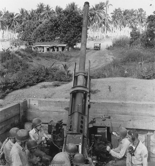 Marines man a 90mm anti-aircraft gun of the 3rd Defense Battalion at Guadlcanal